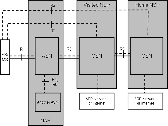 WiMAX Architecture